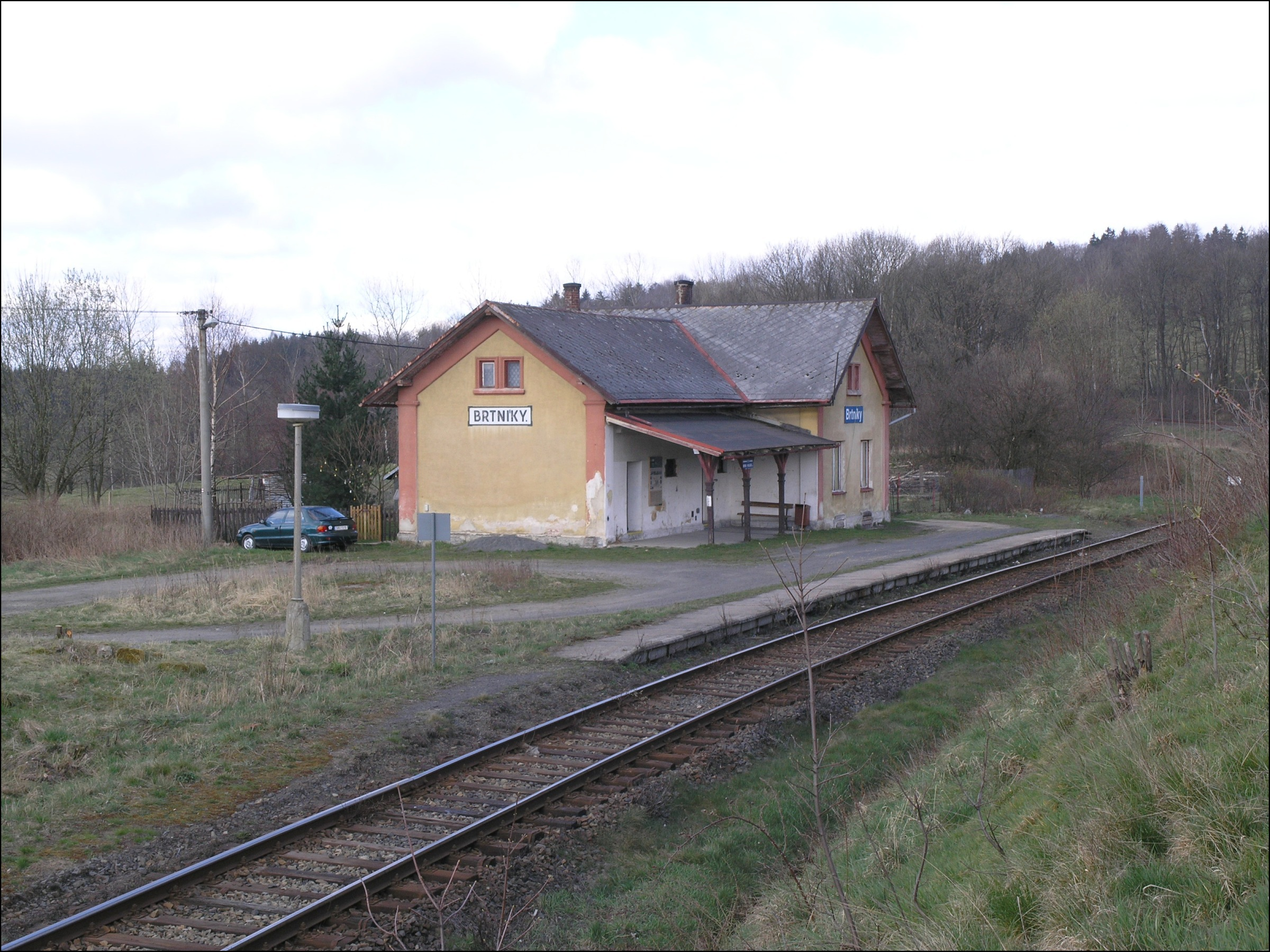 Train station in Brtníky, Ústí nad Labem Region.